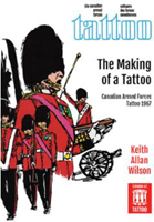 Front cover page of Making of a Tattoo